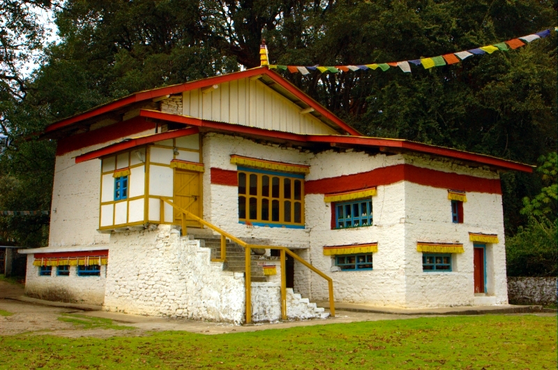 The birthplace of the 6th Dalai Lama (Urgelling gompa) in Tawang, Arunachal Pradesh, India.